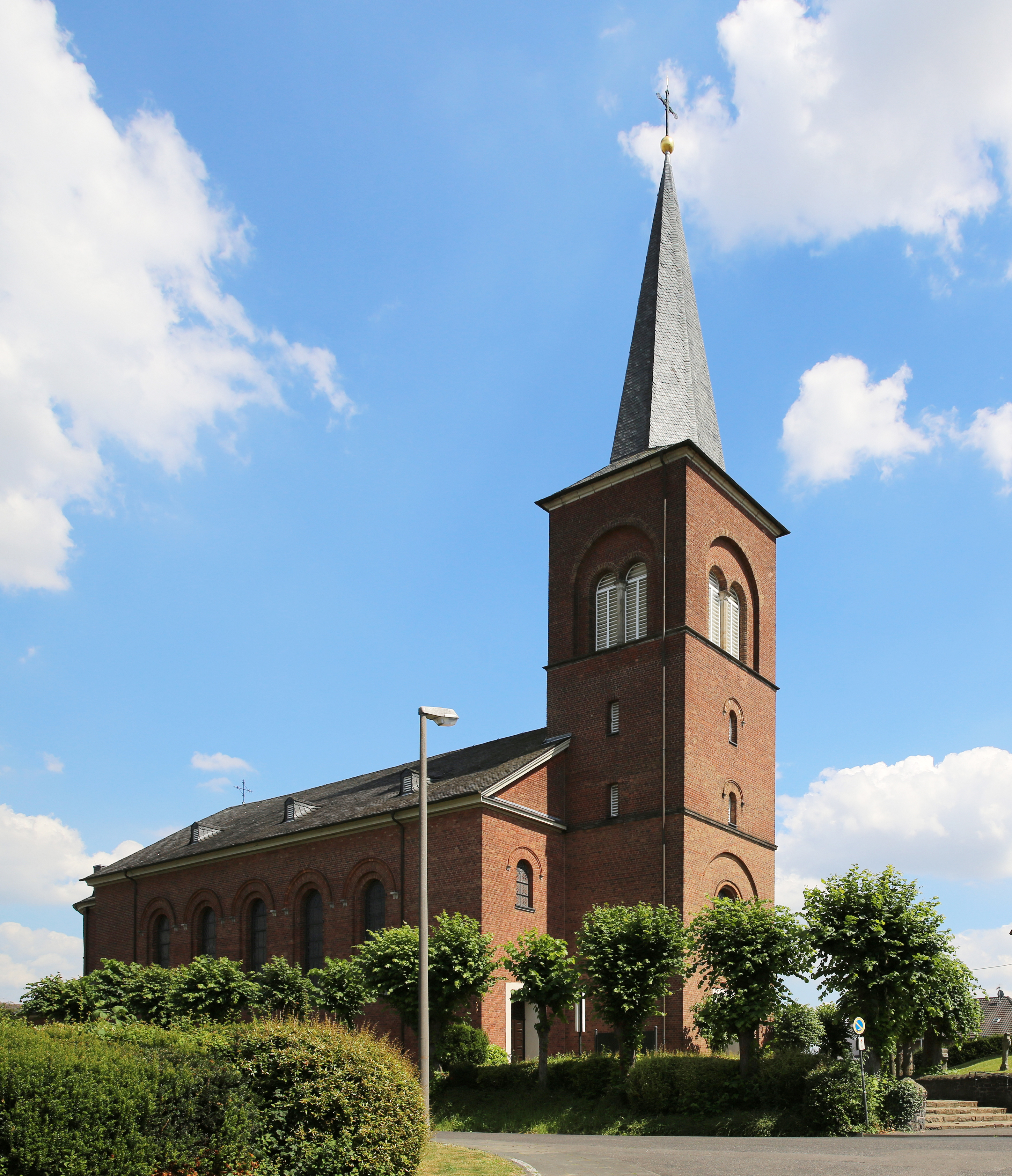 Saint Gervasius - St. Protasius Church in Sechtem (Bornheim), Germany